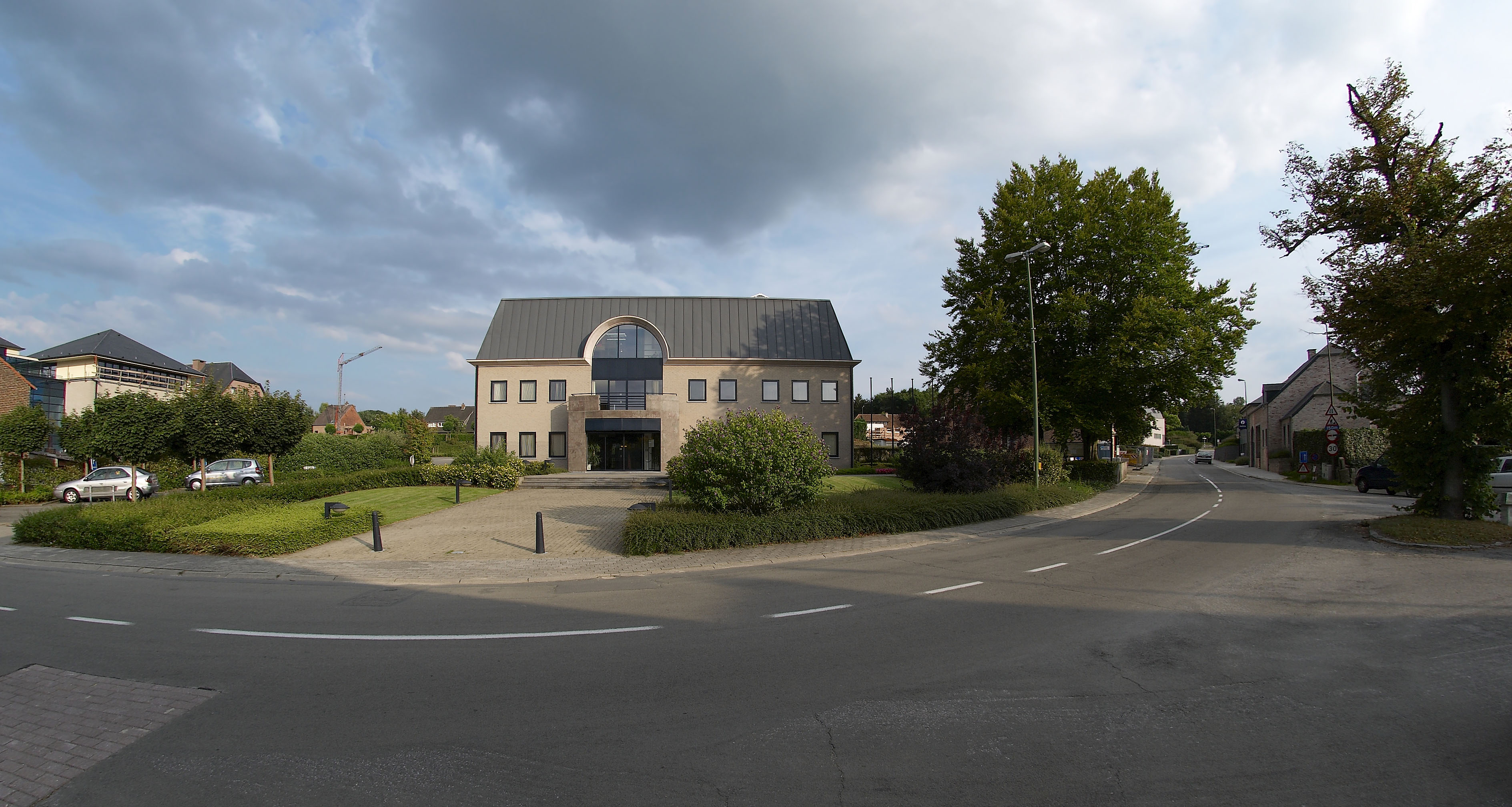 Town hall of Vaalbeek, Belgium